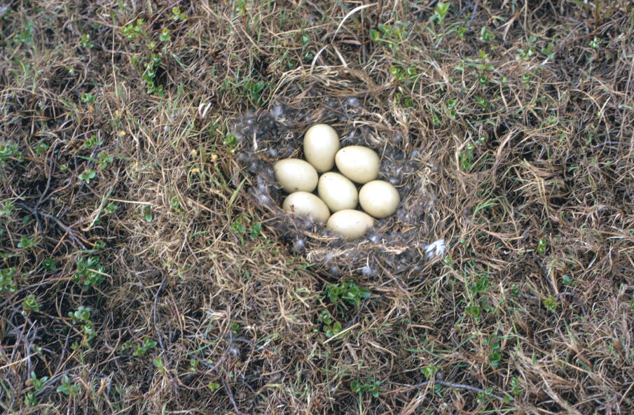 Long-Tailed Duck (Clangula hyemalis) nest